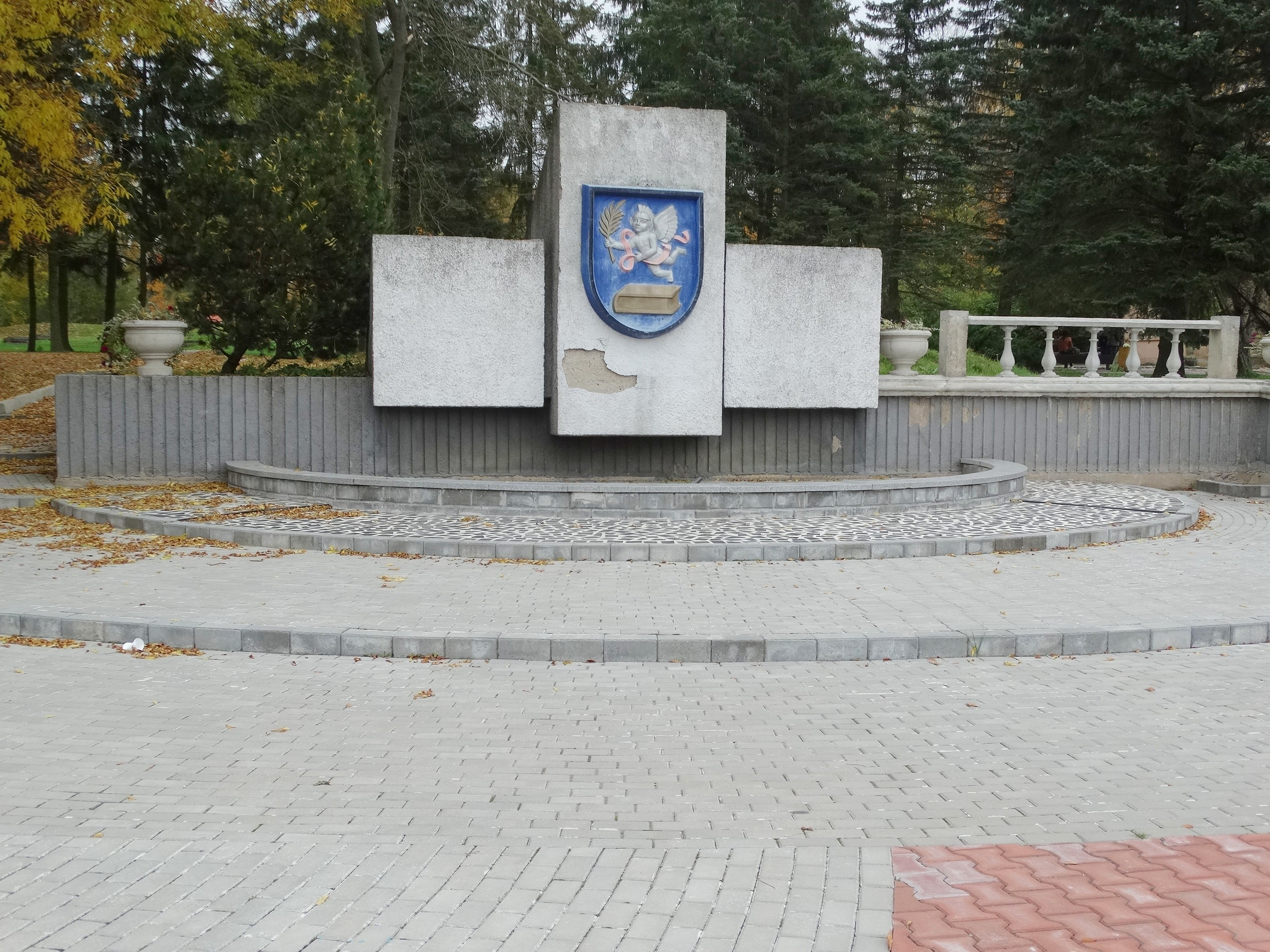 Lukšiai, Šakiai district, Lithuania